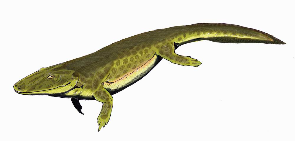 Tulerpeton, my own work